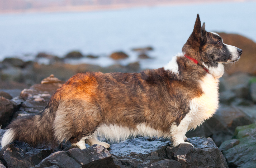 Cardigan Welsh Corgi, Profile